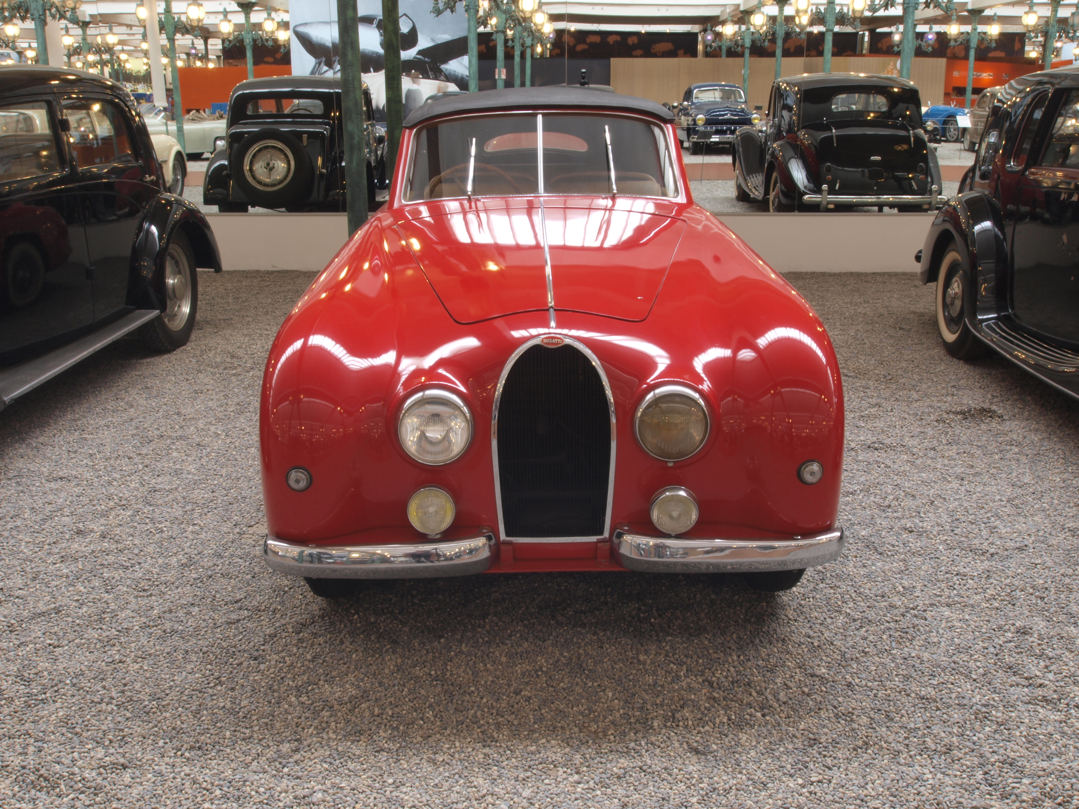 Photographed at the Cité de l’Automobile, France. OLYMPUS DIGITAL CAMERA